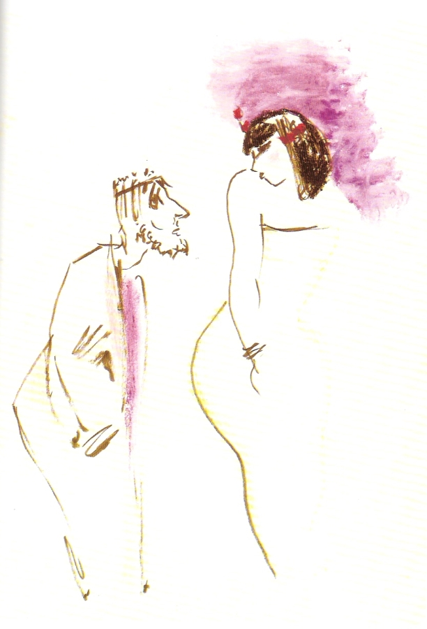 This picture was given to me by the family of Shmuel Bunuim to use in Wikipedia as Public Domain